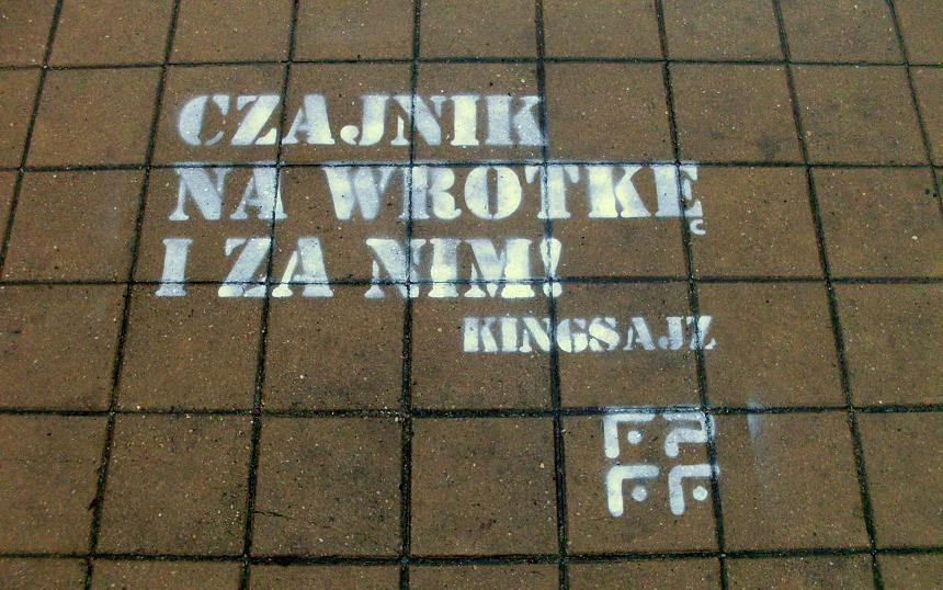 Quotation from film 'Kingsajz' advertising XXXIV Polish Film Festival in Gdynia 2009. This photo was made in Świętojańska Street few weeks after the entertainment.